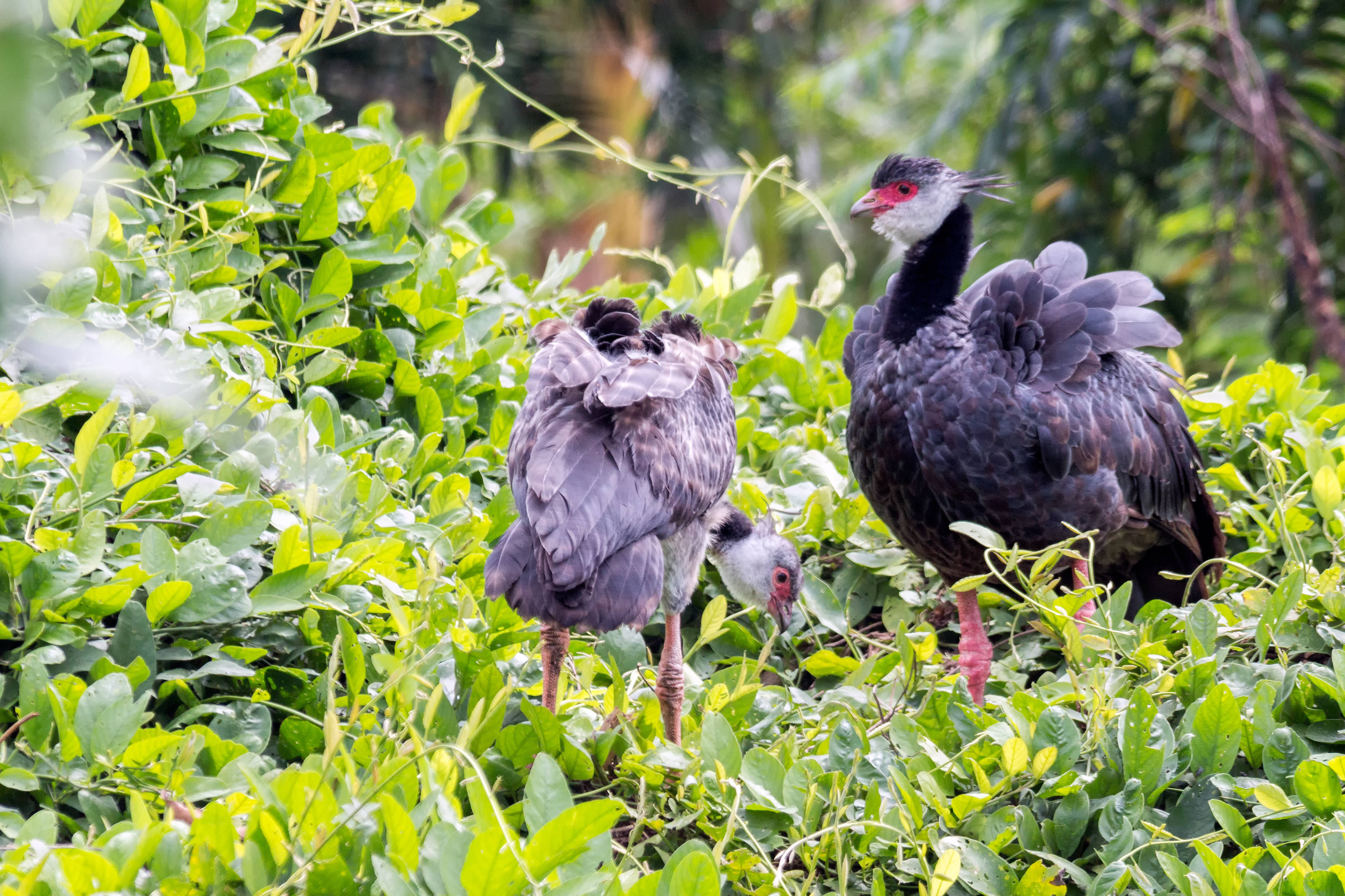 Northern Screamer | Chicagüire (Chauna chavaria)